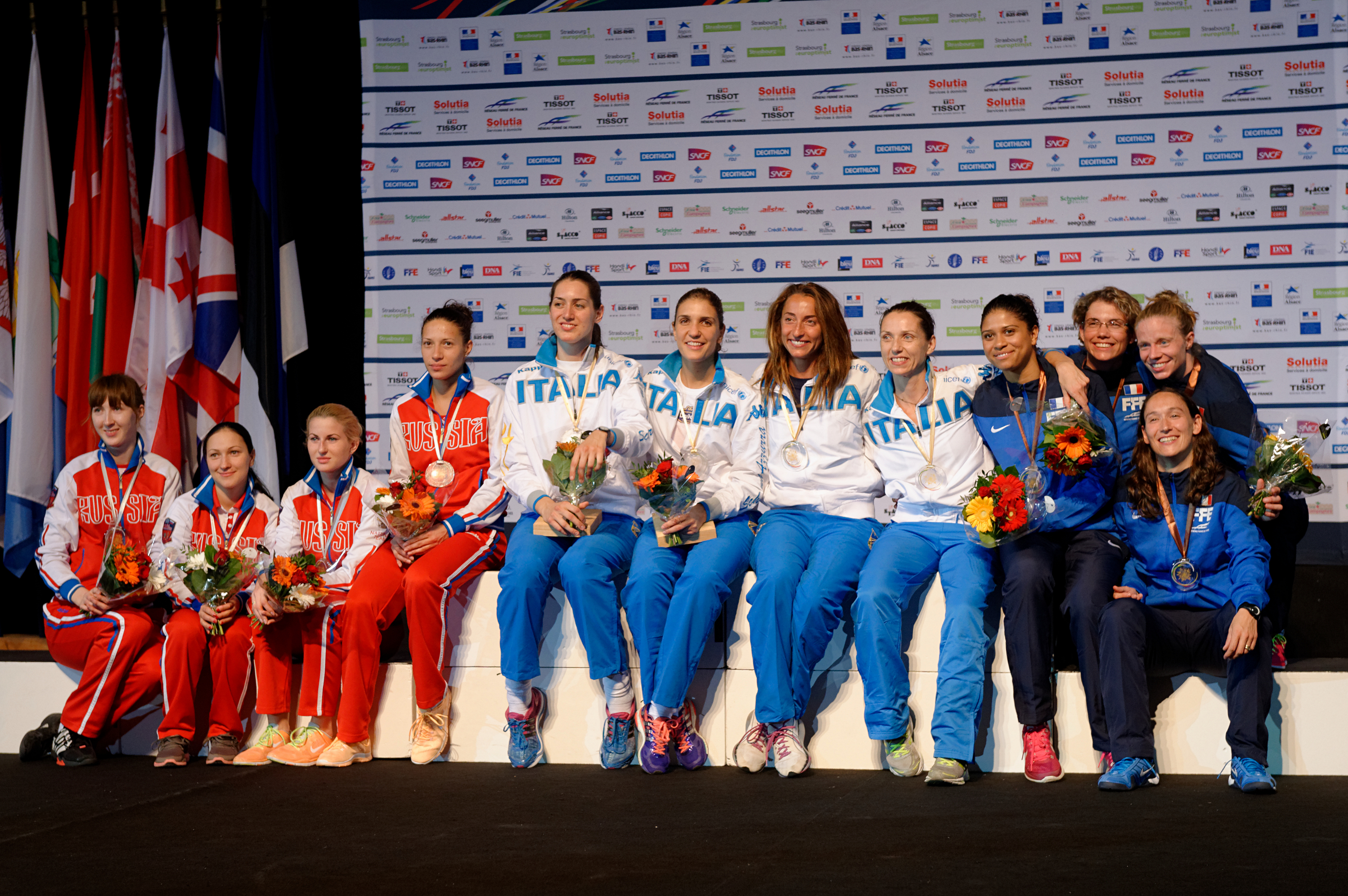 From left to right, Russia, Italy, and France at the European Fencing Championships at Rhénus Sport in Strasbourg on 14 June 2014.